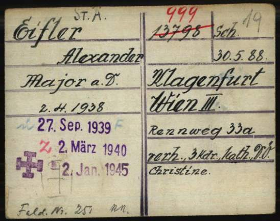 Registry card of Alexander Eifler as a prisoner at Dachau Nazi Concentration Camp The cross signals the day of his death